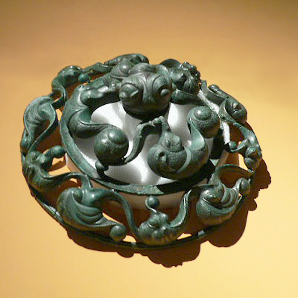 Celtic ornament